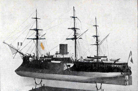 French battleship Redoutable